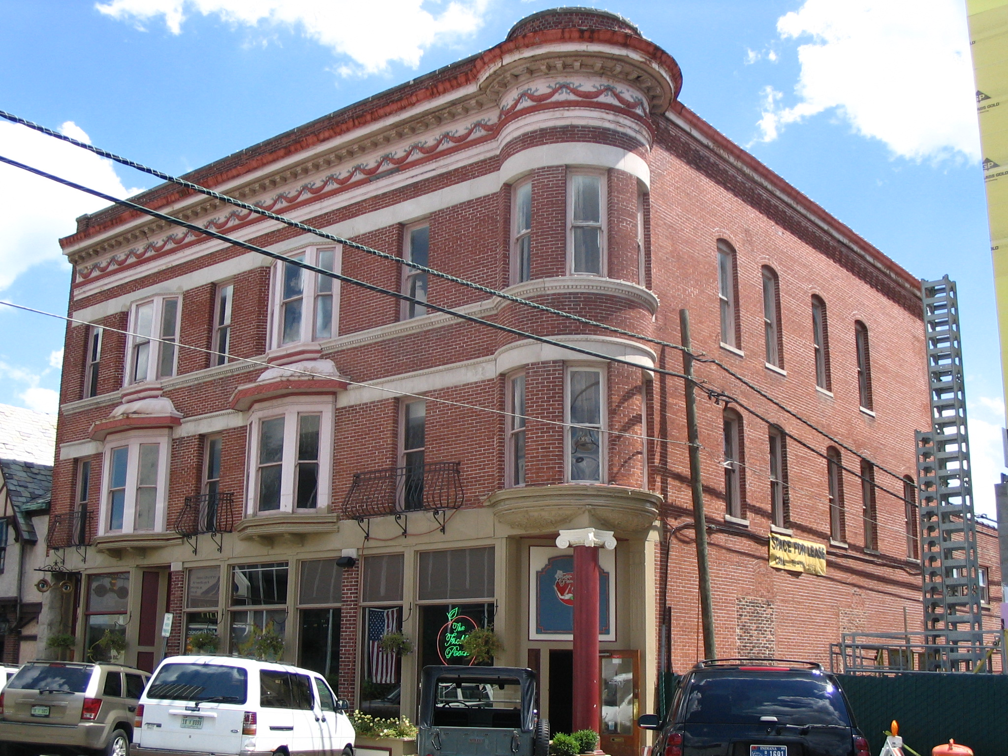 The Historic Francis T. Roots Bldg (1890) located at 115-119 E. Charles Street in Muncie, Indiana.